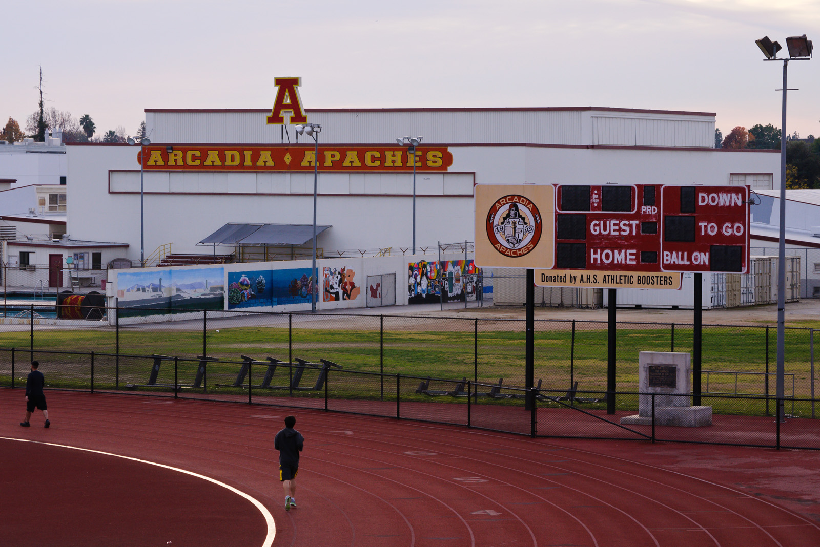 Doing a Christmas afternoon photo session on the campus of Arcadia High School. Arcadia is located just east of Pasadena, and 20 miles northeast of Los Angeles; thanks to Arcadia being home to Santa Anita Racetrack, Arcadia's public schools are better funded than in the rest of California, and Arcadia has developed a legendary status among wealthy Asian immigrants (especially those from Taiwan) as a result. Having once lived in Arcadia myself, it's always nice to come back for a new look. The running tracks on Salter Stadium are outright awesome. Salter Stadium is better than just about any other high school stadium I've ever seen, on par with many college stadia, and good enough for international track meets. Arcadia High School's athletic programs in general are very strong, including the water polo program, which uses the outdoor pools in the distance. The Apache tribe is Arcadia High School's symbol, and traditionally Apache motifs and imagery were used in caricature, but in recent years, continued use of the Apache motif focuses more on the positive aspects of the tribe, and the school has built a partnership with the real Apache tribe in Arizona.